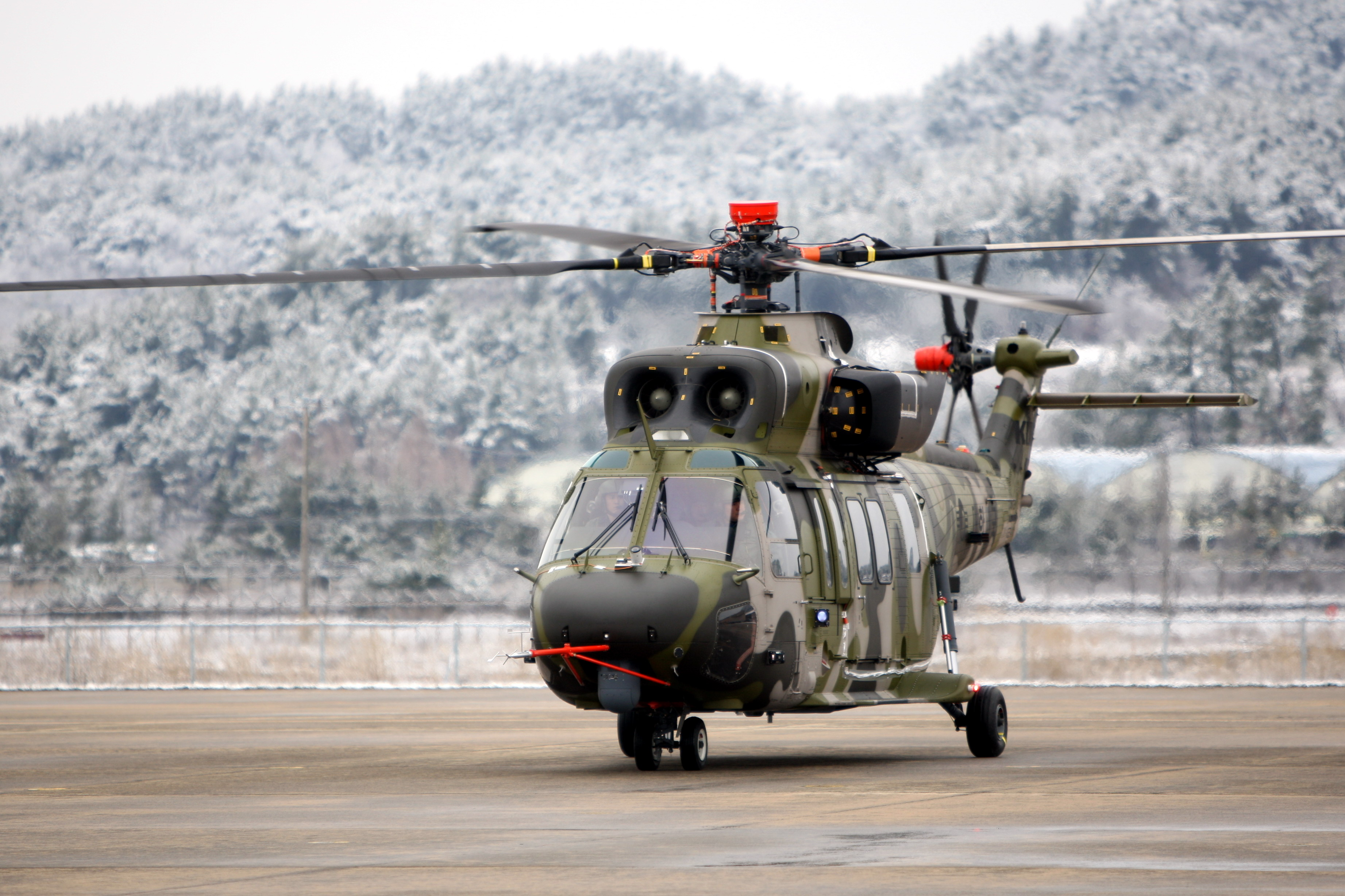 First Korean Utility Helicopter Prototype KUH-1 Surion / Ready to takeoff for First Flight / Photo by KAI (2010) 한국항공우주산업